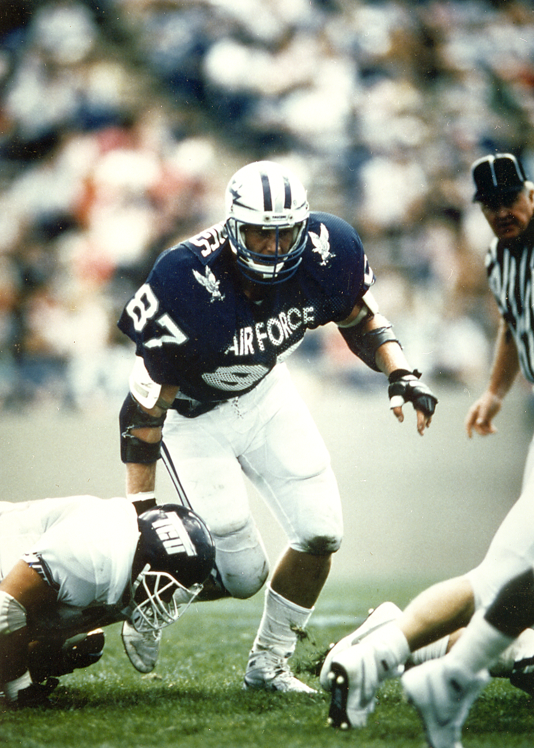 Former Air Force great Chad Hennings, a 1988 graduate of the Air Force Academy, was elected to the College Football Hall of Fame on May 16, 2006. He was considered one of college football's great defensive linemen of his era, a unanimous first-team All-America selection in 1987 who received the Outland Trophy as the nation's top interior lineman. As a pro, he embarked on a nine-year NFL career with the Dallas Cowboys that brought him three Super Bowl titles. (U.S. Air Force photo)